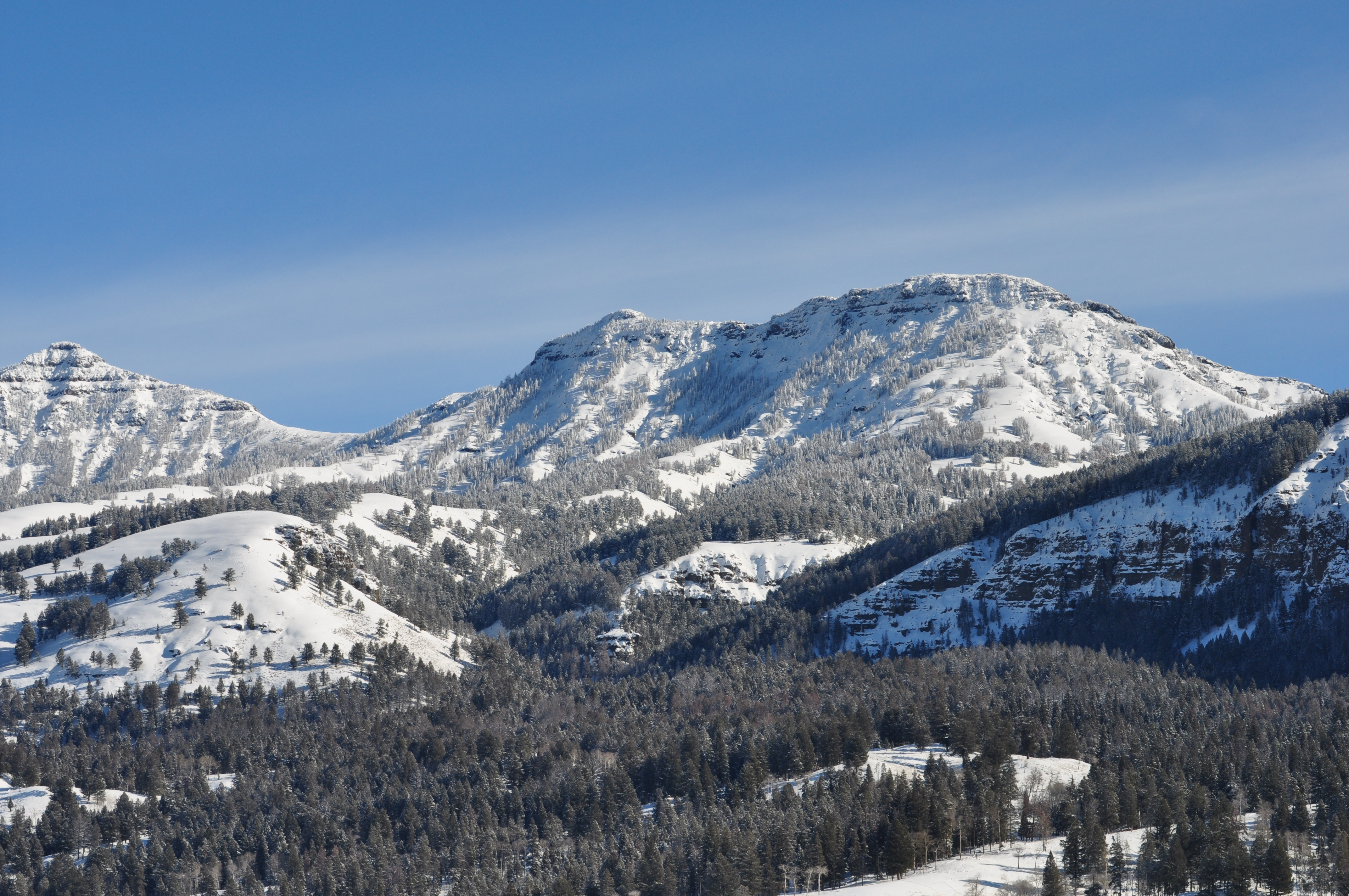 Mount Norris, Yellwostone National Park, Wyoming, January 2010